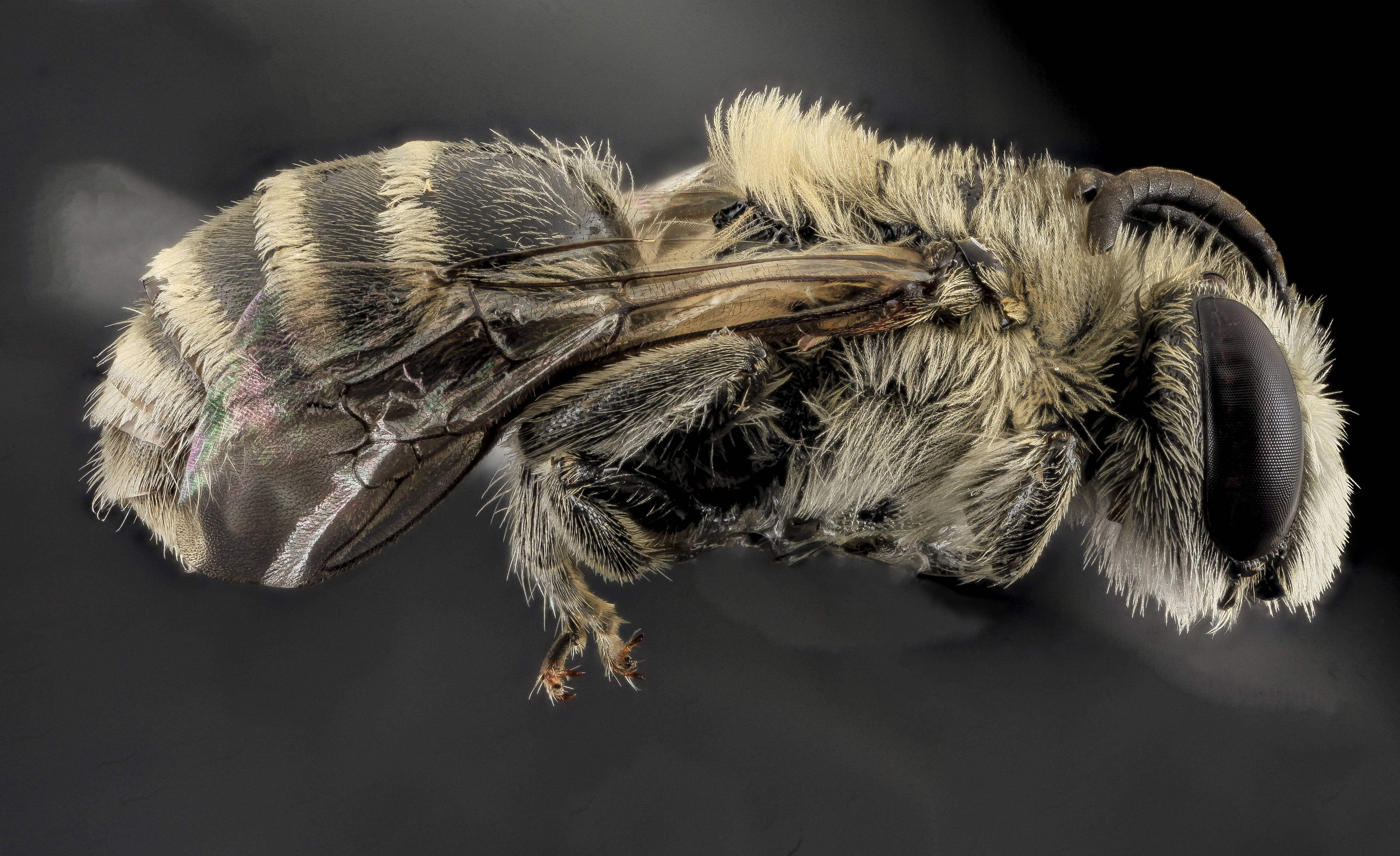 Colletes titusensis, male. Rarity here. This is species was described in the 1950s, named after the town it was collected near and only a handful of specimens have ever been collected that I am aware of. In fact it is so rare that it was on our list of "missing" species, published in 2011. So it is nice to see this species and, indeed, it was collected at Cape Canaveral National Seashore, whose nearest town is.....Titusville. Picture taken by Wayne Boo Canon Mark II 5D, Zerene Stacker, 65mm Canon MP-E 1-5X macro lens, Twin Macro Flash, F5.0, ISO 100, Shutter Speed 200